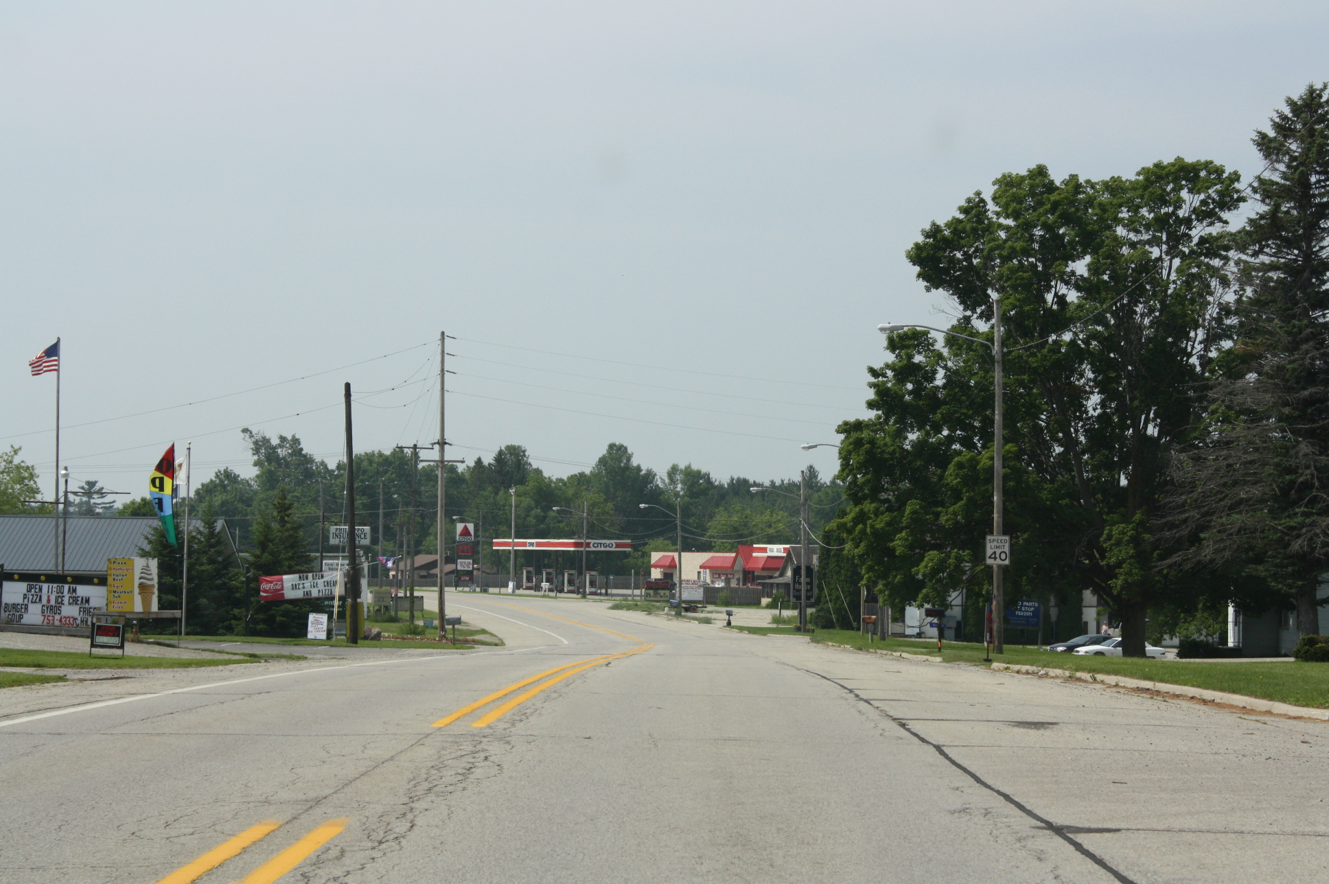 Looking south at downtown Stephenson, Michigan] on U.S. Route 41.